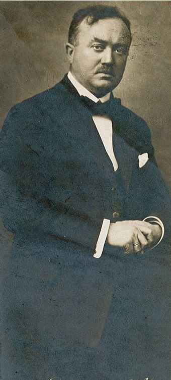 Norwegian composer and conductor of theatre ensembles Torolf Voss (1877–1943), here pictured around 1935